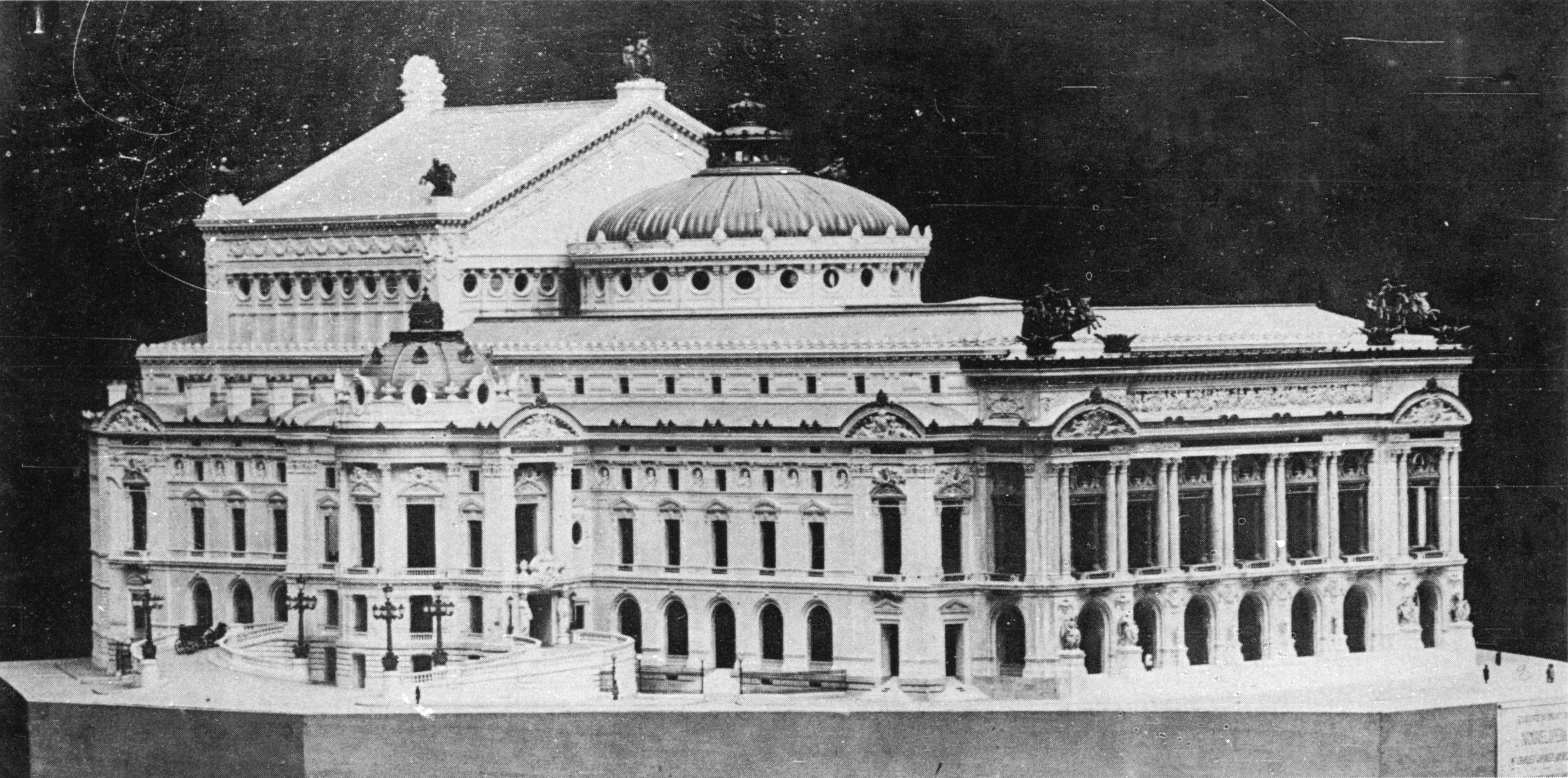 Louis Villeminot's plaster model of the Palais Garnier (after designs of the architect Charles Garnier) as photographed by J. B. Donas in May 1863. The model was lost sometime after 1925. Its last known location was the "Ecole régionale d'architecture de Strasbourg".